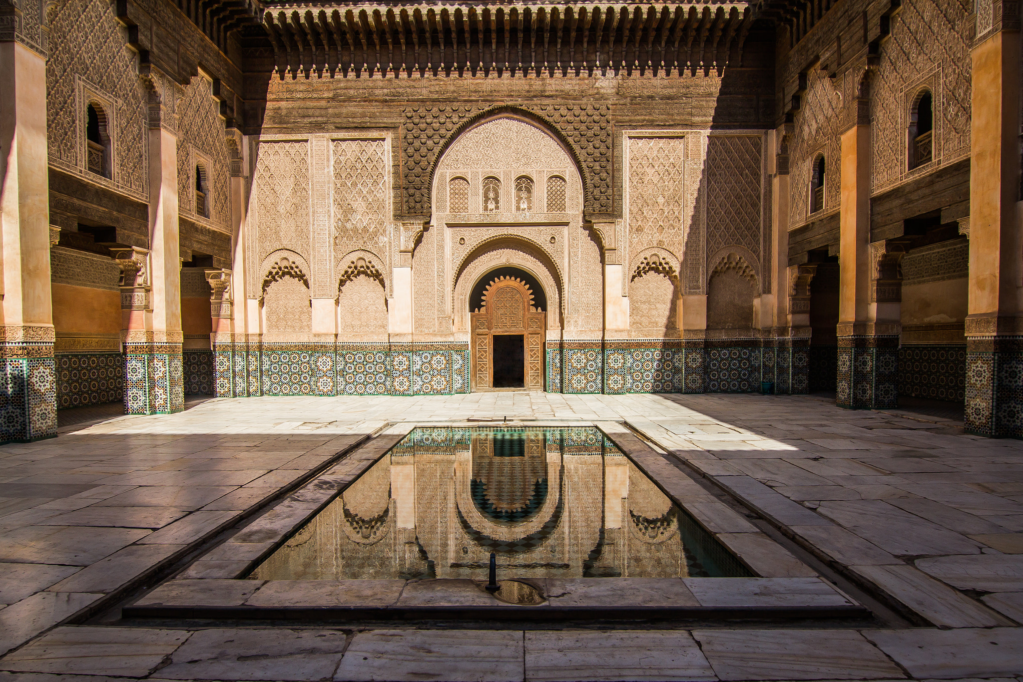 500px provided description: Coranic School [#school ,#africa ,#wide ,#mosque ,#morocco ,#wide angle ,#marrakech ,#fes ,#fez ,#marrakesh ,#medersa ,#north africa ,#institute ,#hidden treasure ,#bou ,#medersa ben youssef ,#youssef ,#madrasa ,#marra ,#f?s ,#bou inania ,#koran school ,#inania ,#bou inania madrasa ,#quran school ,#medersa ben yussuf ,#wide ang]